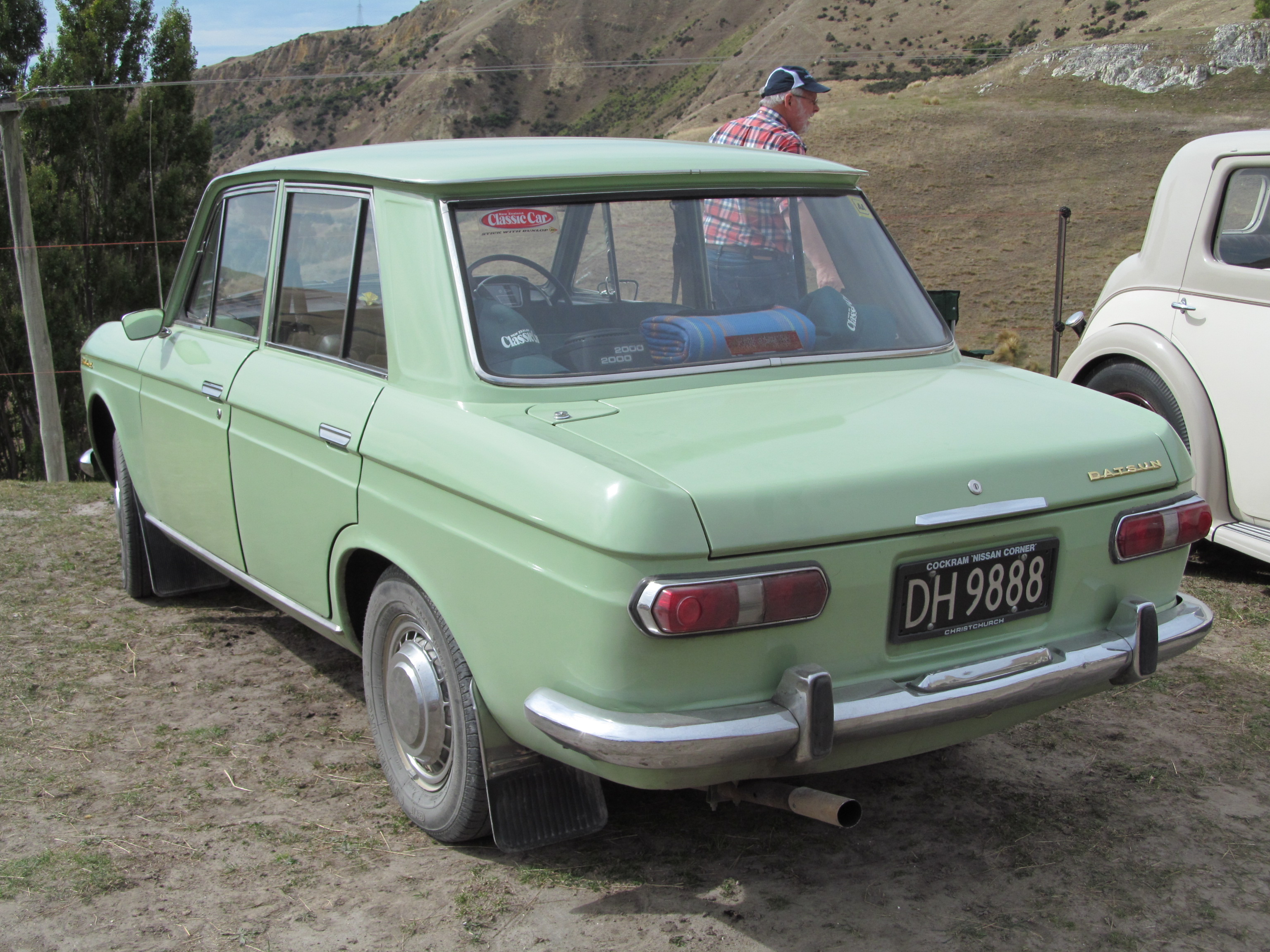 DH9888 A rear view of this lovely early Bluebird. I quite like this shape, but I think I prefer the 510-series. Still, these look fantastic and I'm sure it's extremely reliable for its age.